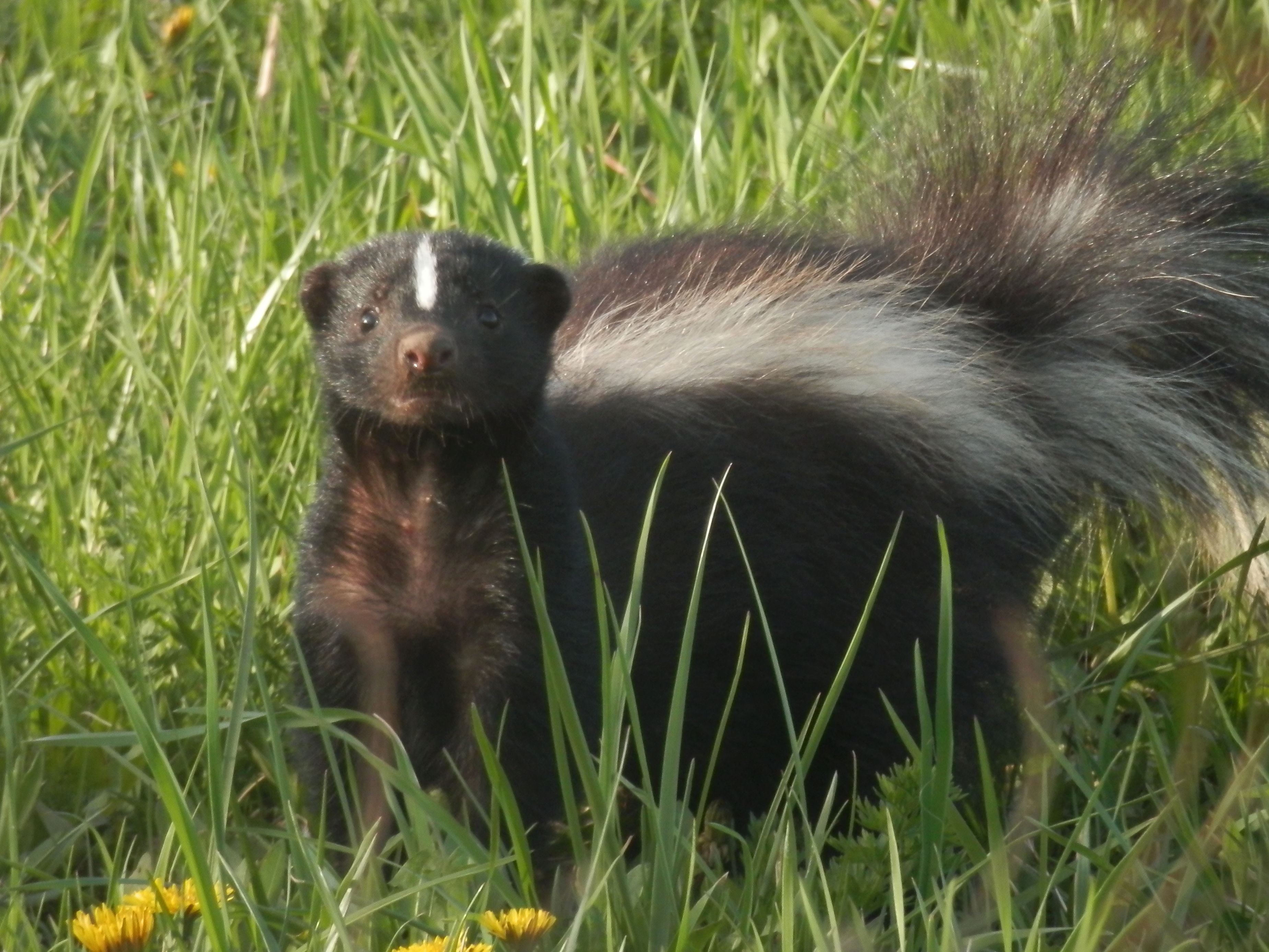 Striped Skunk (Mephitis mephitis) in Guelph, Ontario, Canada.